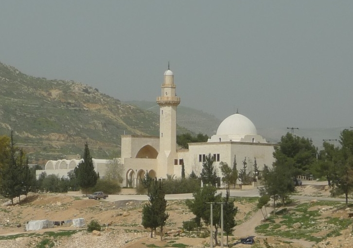 Shrine for the prophet Shoaib, Wadi Shoaib, Jordan